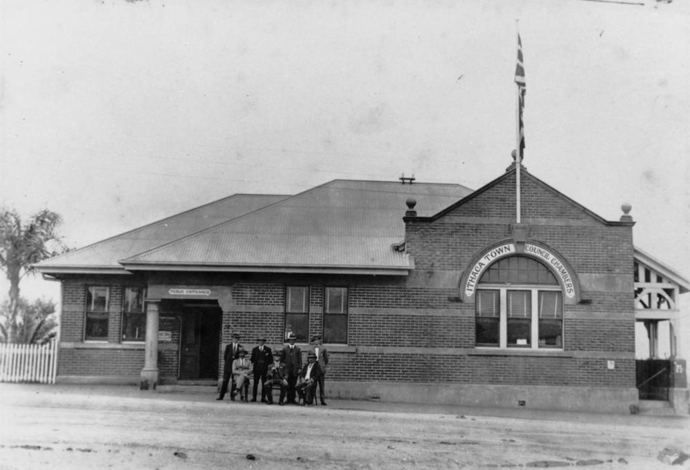 Ithaca Town Council Chambers in Red Hill, Brisbane, 1919 The building is brick with an iron roof. A decorated gable feature has an arched window with the Council name above it.